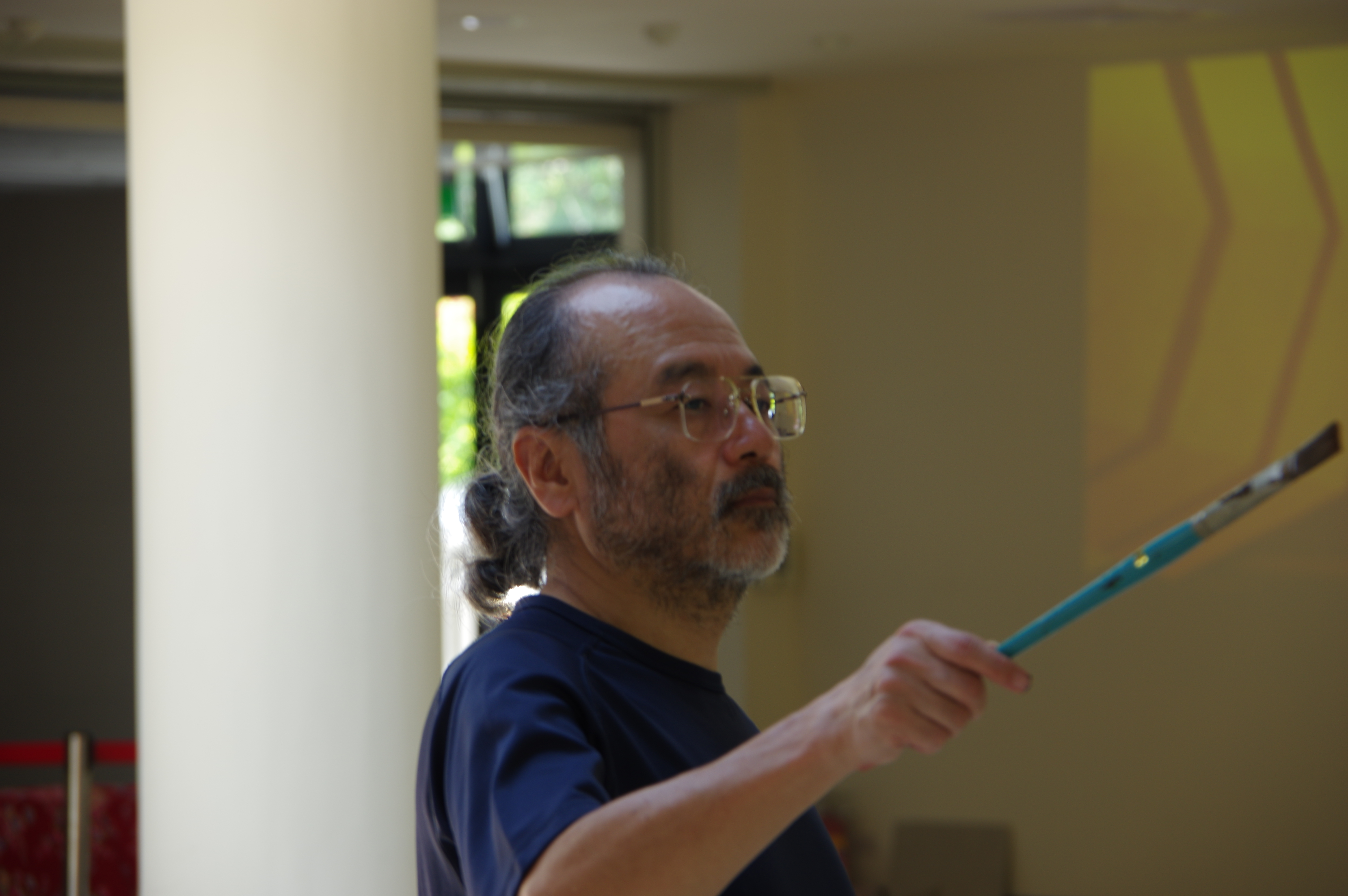 Naoyuki Kato (加藤直之), Japanese Illustrator